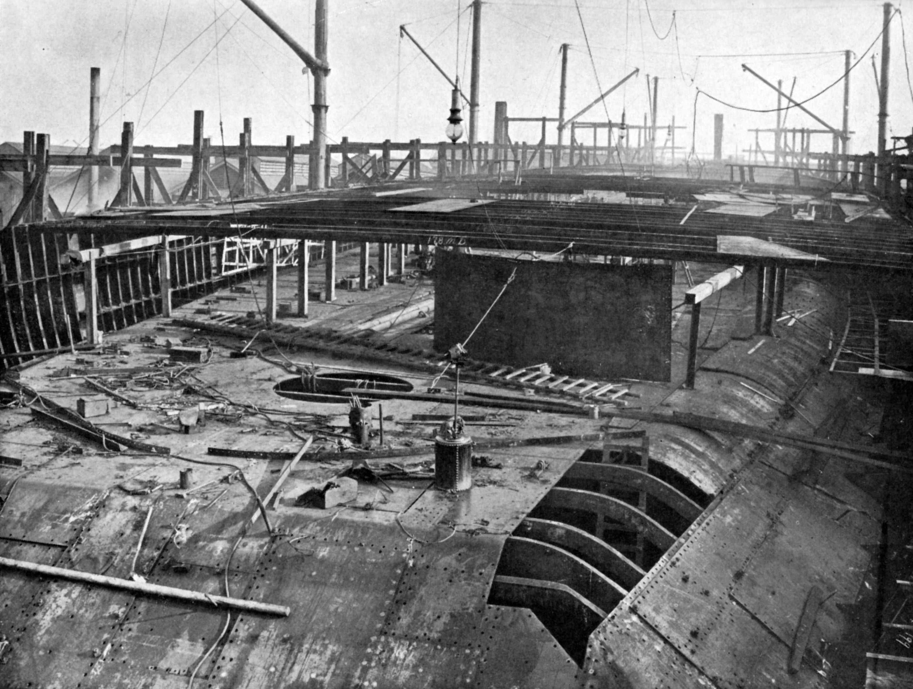 Photograph of Royal Navy ship HMS Dreadnought (1906) taken 36 days after keel had been laid. Plating of armoured deck is largely complete and beams for main deck can be seen.